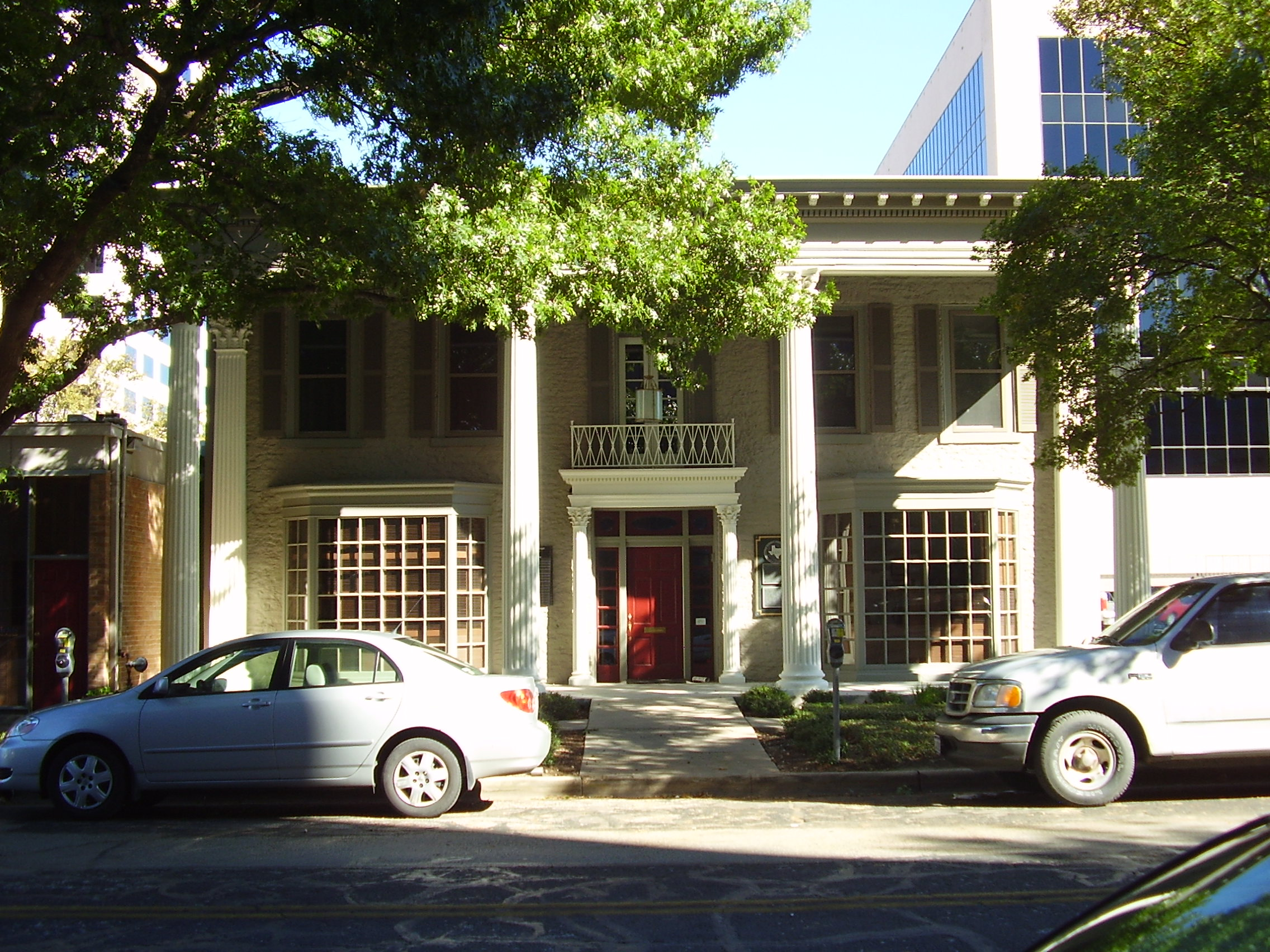 Wahrenberger House, 208 West 14th Street. It was a boarding school and house for female students at the German-American Ladies College. The Texas German and English Academy, a boys school, occupied the house from 1880 to 1886.